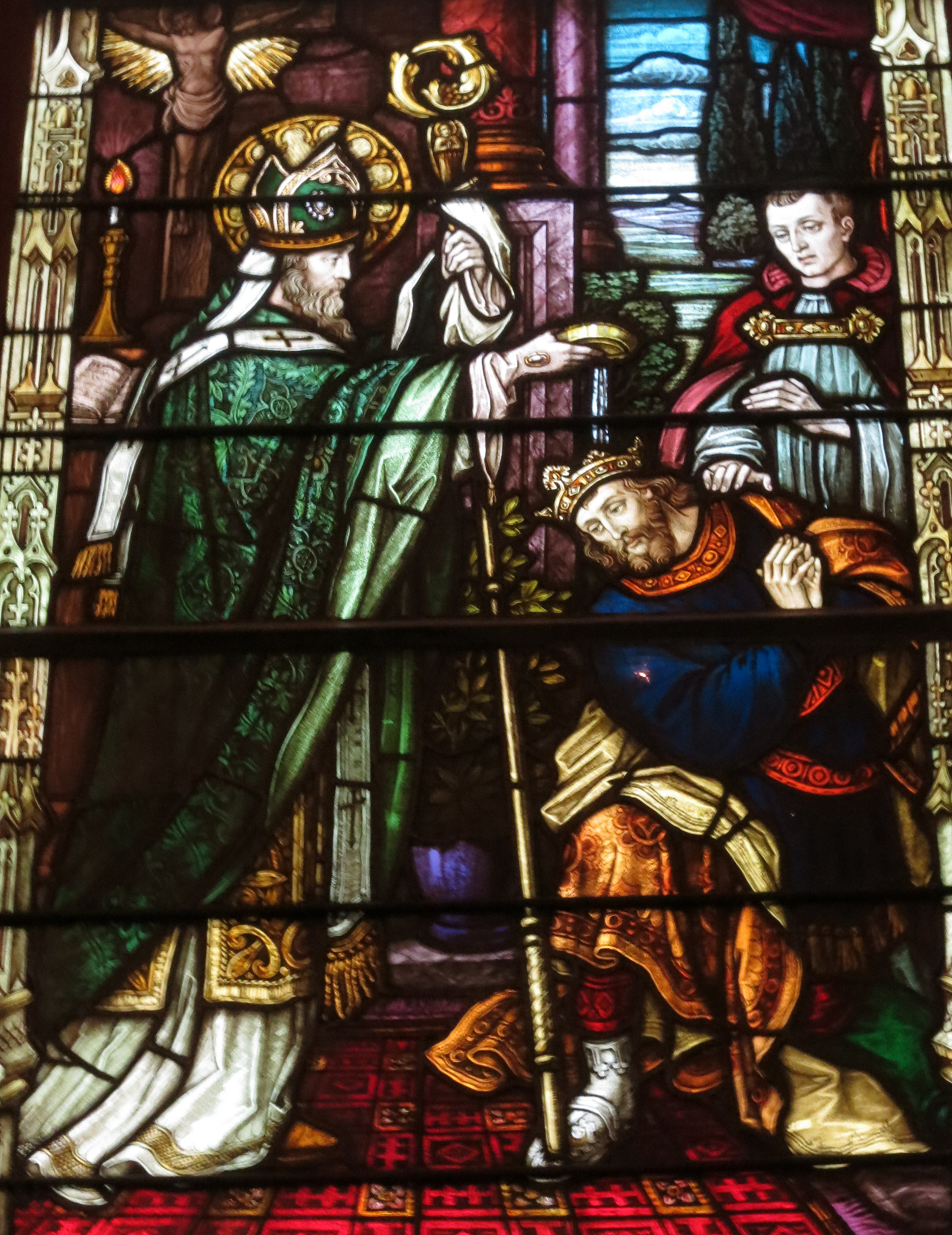 Saint Patrick Catholic Church (Columbus, Ohio) - stained glass, St. Patrick baptizing the king